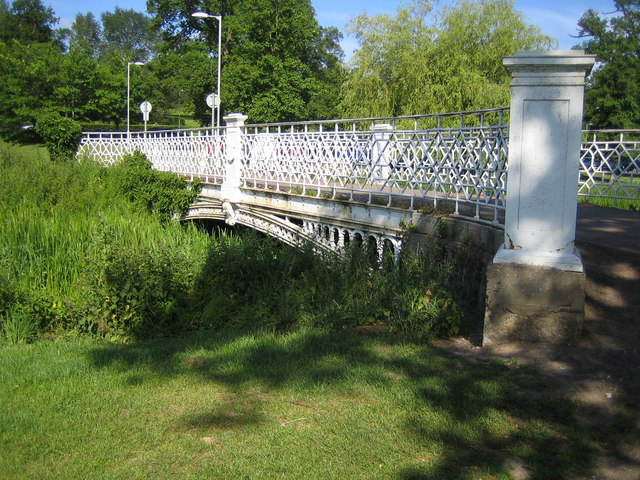 Hemel Hempstead: The White Bridge, Gadebridge Park. The carriageway to Gadebridge House originally passed through a ford on the River Gade until, around 1840, the owner of the house, Sir Astley Paston Cooper, arranged for a local iron founder, Joseph Cranstone, to erect a bridge. With its attractive design resembling bamboo, it echoes the Chinese style popular at that time. Gadebridge House itself was demolished in the 1960s.